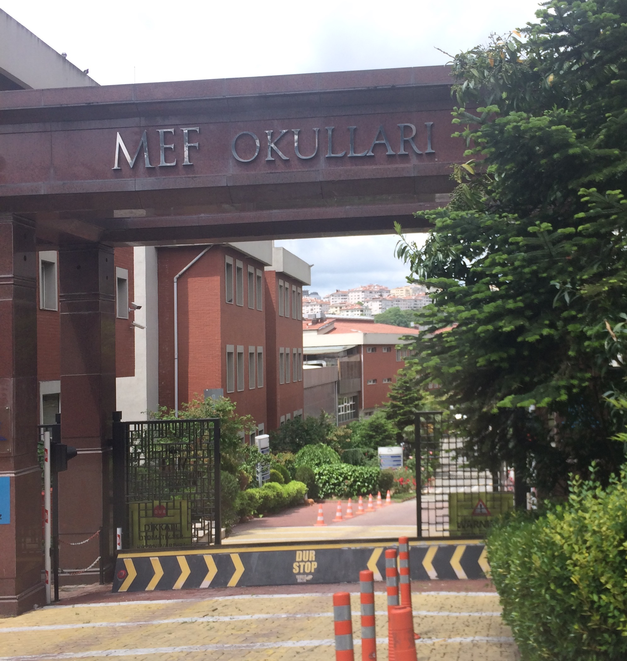 School